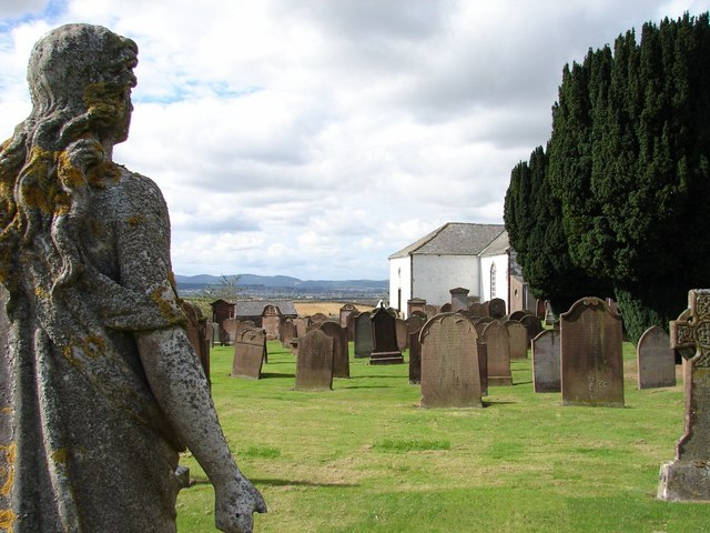 Torthorwald Churchyard An lone stone angel looks across the churchyard toward Torthorwald Parish Church (dating from 1782). In the distance is Dumfries and the southern Galloway Hills.